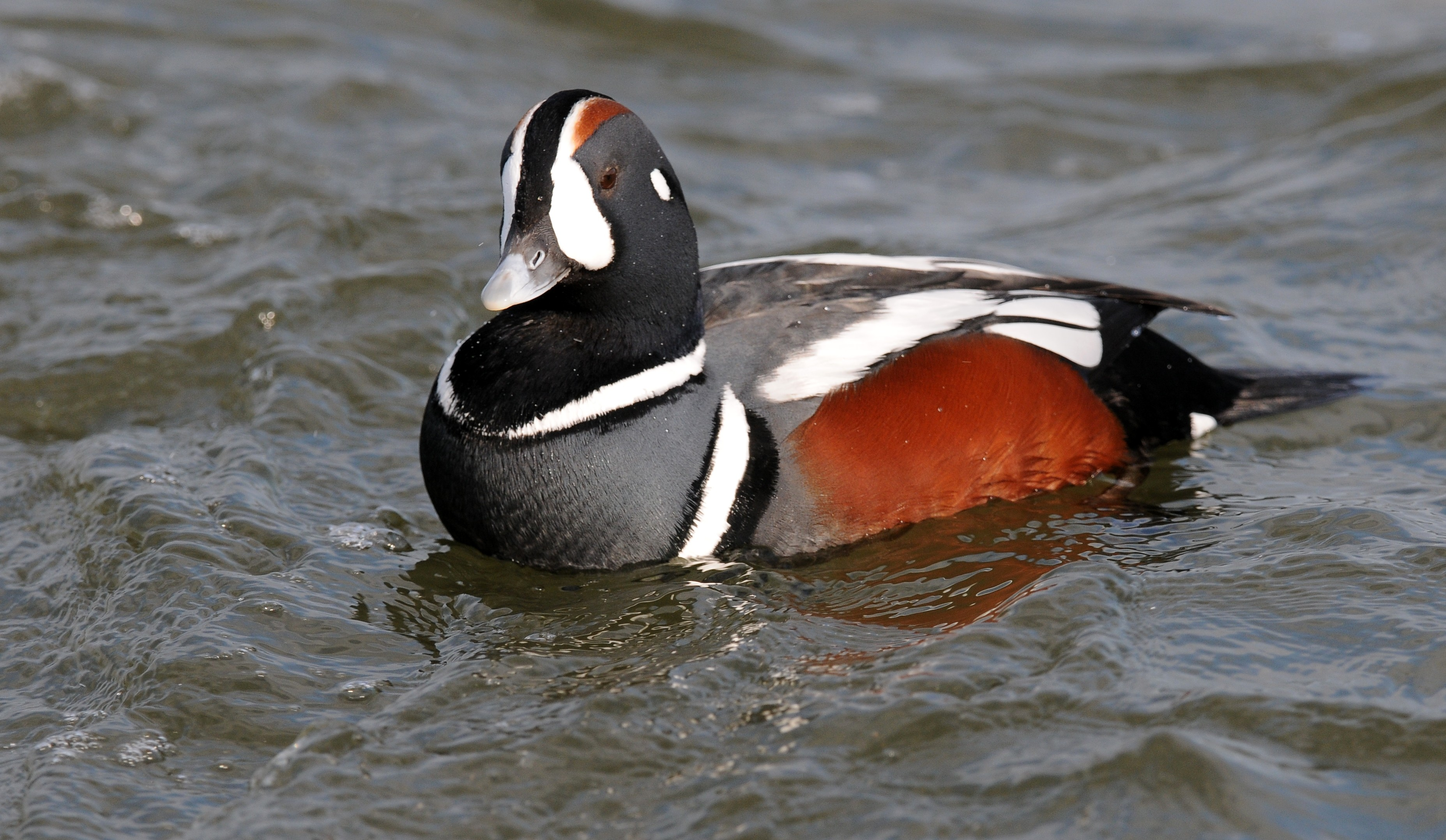 Drake Histrionicus histrionicus, Barnegat, New Jersey, USA.